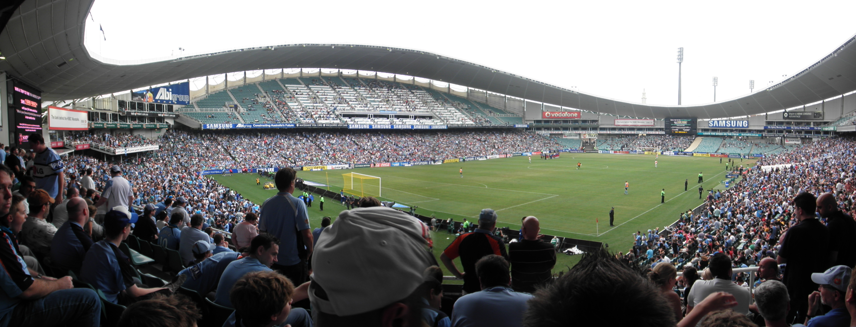 Sydney FC 2 - 0 Melbourne Victory pre-game Round 27 Hyundai A-League 14.02.2010 Sydney Football Stadium